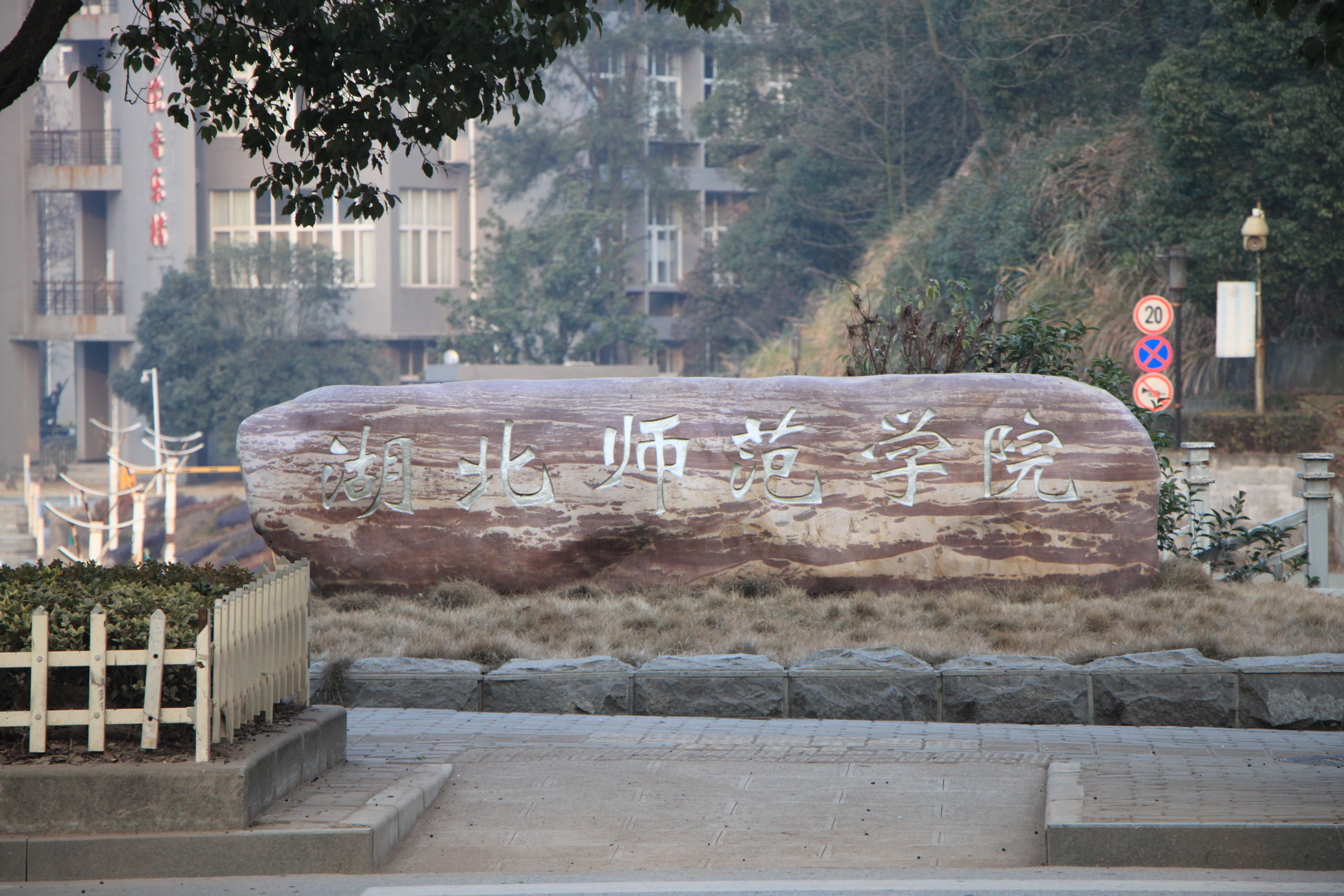 Hubei Normal University's South Gate No.2